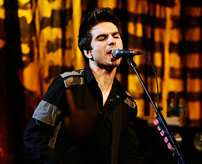 Pittsburgh-based punk band Anti-Flag performing live @ Impérial de Québec, Québec City on September 12, 2008.